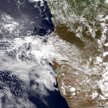 The remnants of Bonita, elongated over the South Atlantic Ocean and Angola.